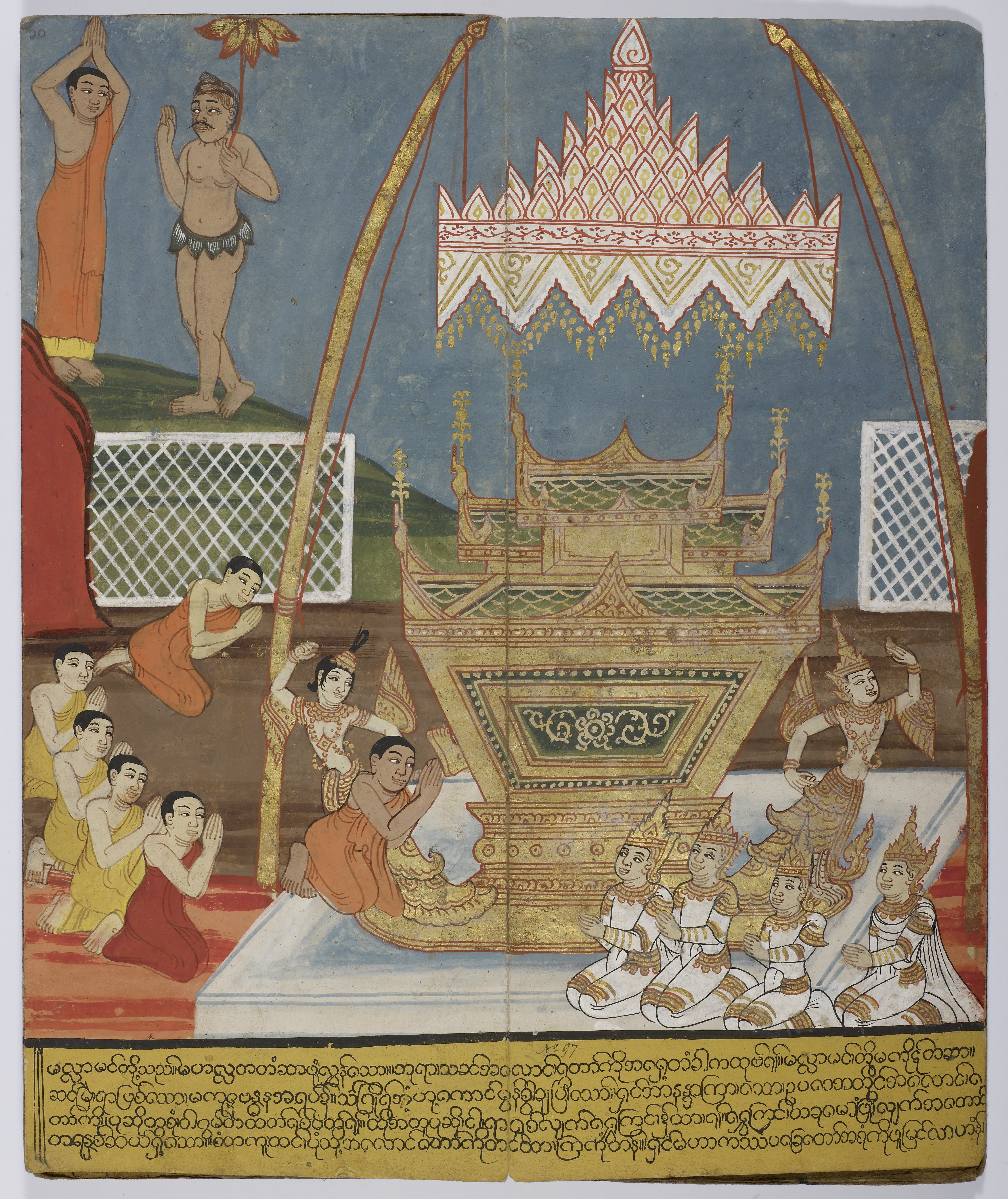 At the age of 80 the Buddha set out on his last journey with Ananda, his cousin and beloved disciple, and a group of bhikkhus from Rajagaha to Kusinara. The Buddha arrived at Vesali and stayed there during the rainy retreat (vassa). After leaving Vesali, on his way to Kusinara, he arrived at Pava where he had an attack of dysentery. The Buddha then arrived at Kusinara and lay down on a couch between two sal trees in the grove of the Malla kings. Though he was very weak, he addressed Ananda and the bhikkhus, and preached the Mahasudasana Sutta and made one last convert. Then the Buddha attained parinibbana or entry into the final nibbana on the full moon day of the month of Vesakha (May). The Buddha’s body was placed in a golden coffin upon a pyre, and a gilded and white umbrella was held above. Mahakassapa, the Buddha’s senior disciple, kneels before the Buddha’s coffin, uncovers the Buddha’s feet and pays homage with full prostrations. The grieving monks are gathered at the Buddha’s funeral in respectful adoration. The Malla kings also gather together to pay their respects to the Buddha with perfume, incense, dancing and music. British Library, Or. 14298, f. 20 Noc The sacred relics of the Buddha were divided and enshrined across Asia in monuments called stupas. These stupas are considered by Buddhists to be the living presence of the Buddha. These sacred places became centres of pilgrimage where people come and honour the Buddha, who taught the Dhamma and established the Sangha.